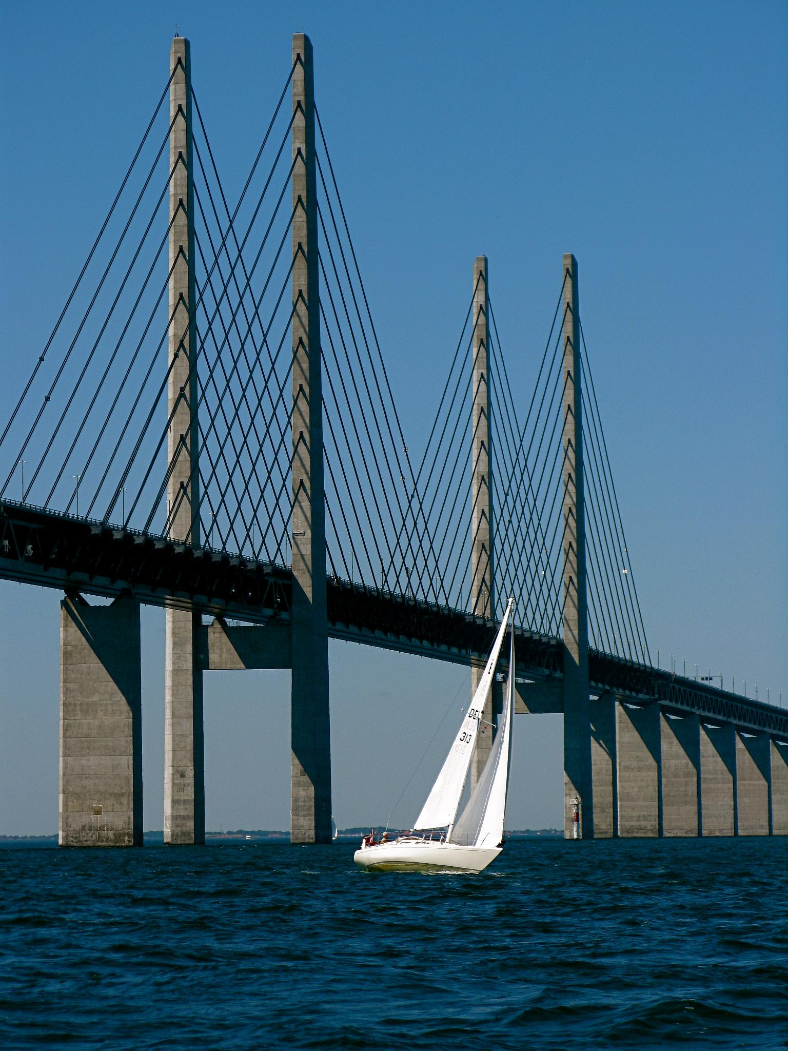 The Øresund Bridge is a combined two-track rail and four-lane road bridge across the Oresund strait and connects the two metropolitan areas of the Oresund Region, the Danish capital of Copenhagen with the Swedish city of Malmö